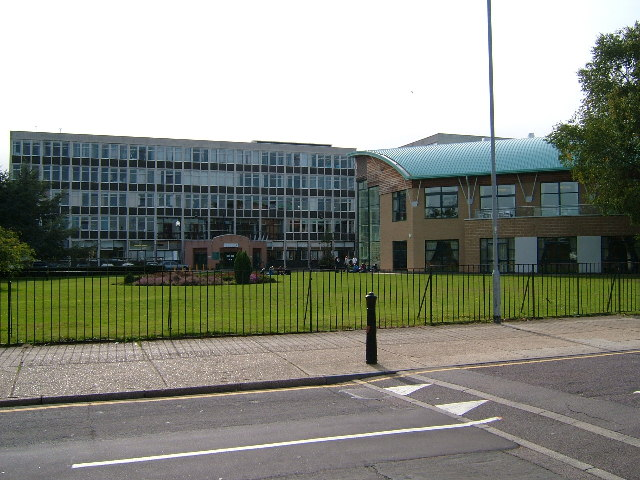 Colchester Institute, Sheepen Road, Colchester. Colchester Institute is the largest college in Essex, providing vocational education and training opportunities for its students. There is also a further campus at Clacton, Essex